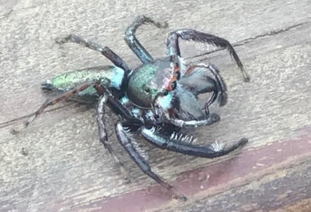 A Side View of A. Pterygodes